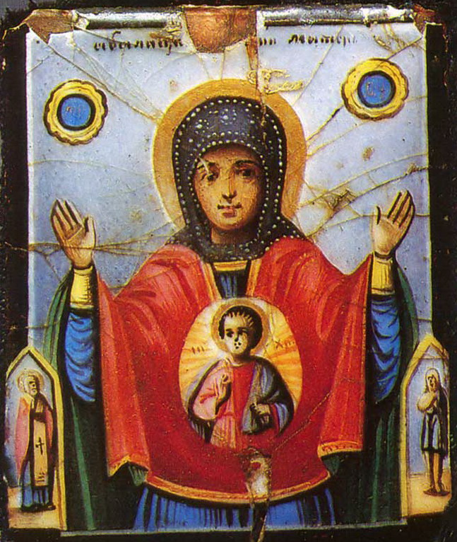 Abalatskaya